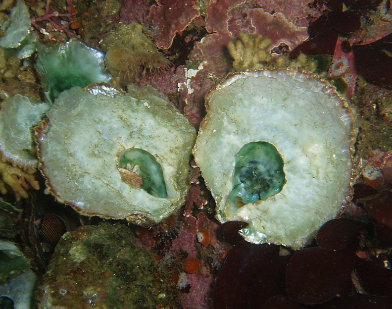 The abalone jingle (Pododesmus cepio Syn. Pododesmus macrochisma) is not an abalone; it is a bivalve more closely related to scallops